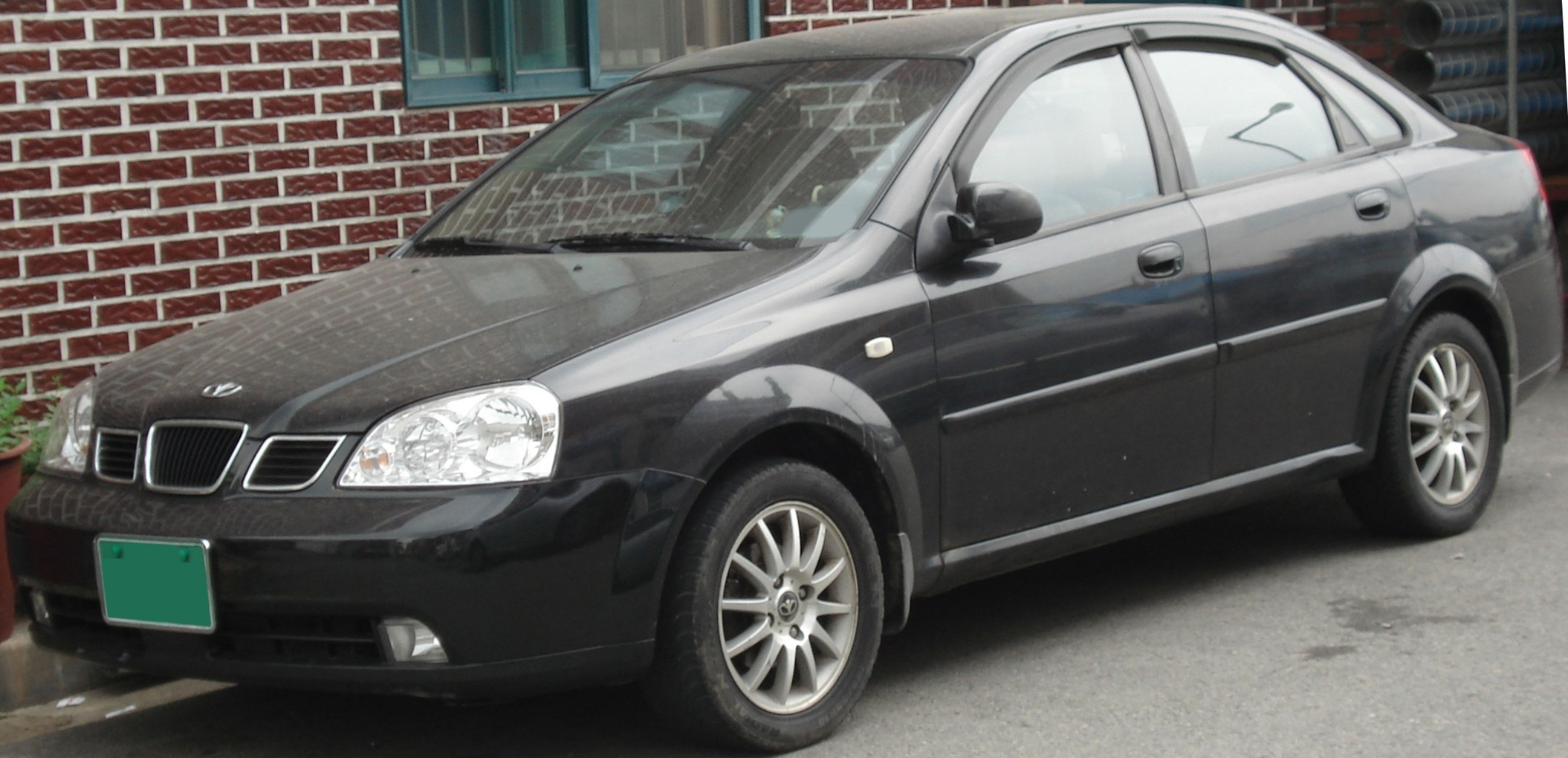 Daewoo Lacetti